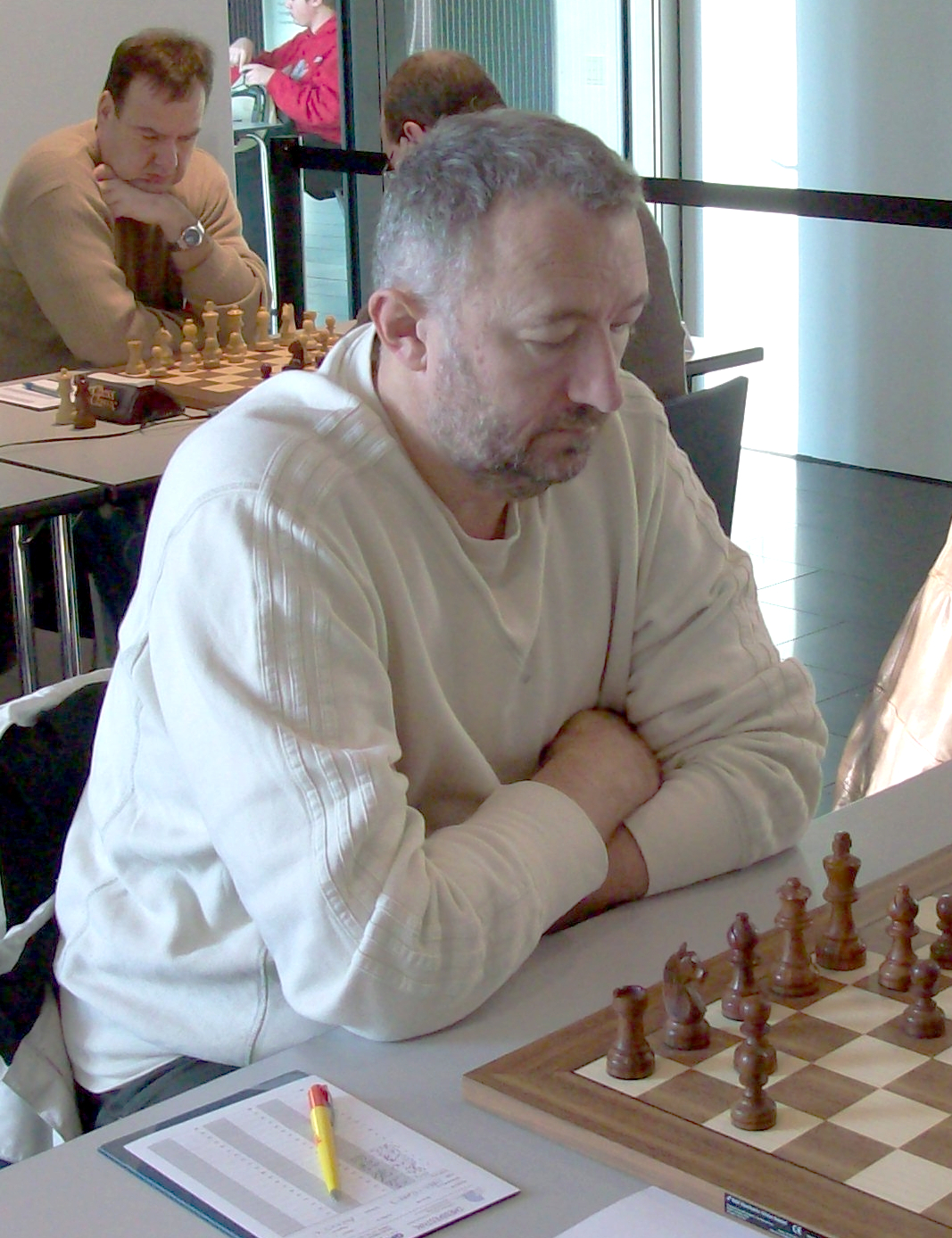 Petar Popovic, chess grandmaster